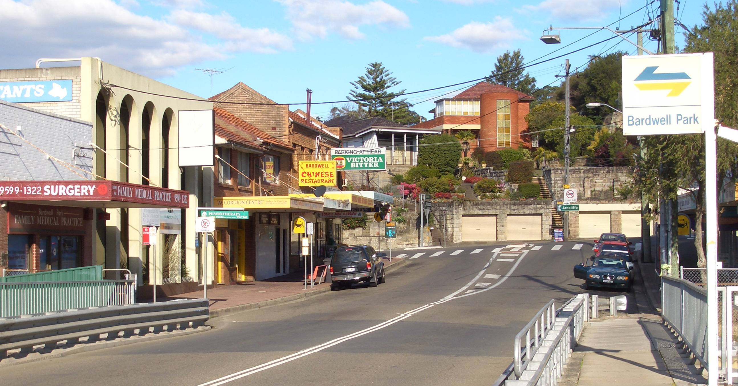 Bardwell Park Shop, Hartill-Law Avenue (north)